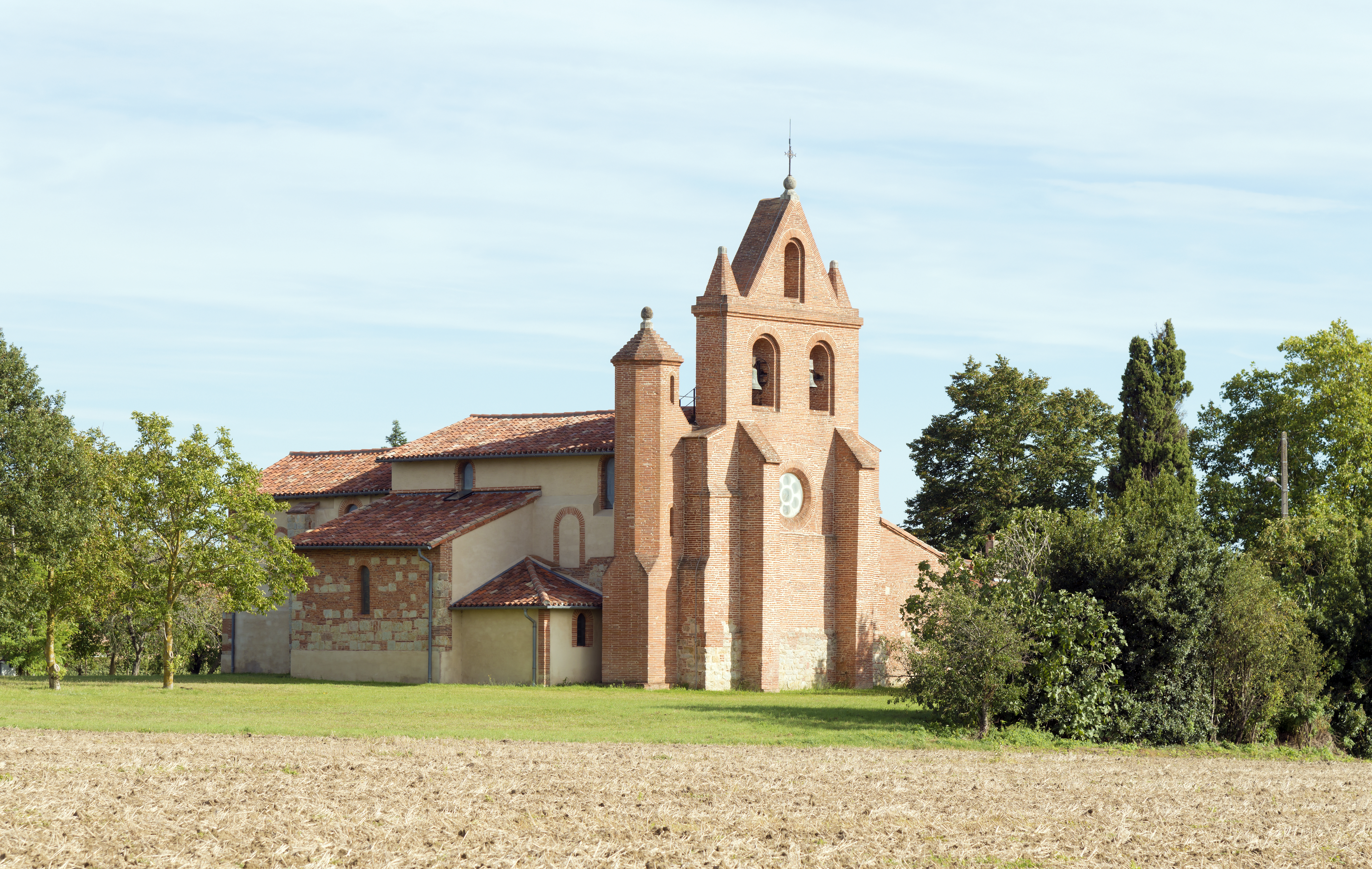 Saint Anatoly de Lanta, Haute-Garonne France. Church Saint Anatoly. Restoration by Urban Virty.